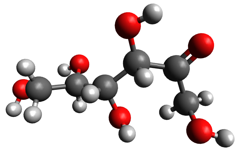 3D model of linear fructose